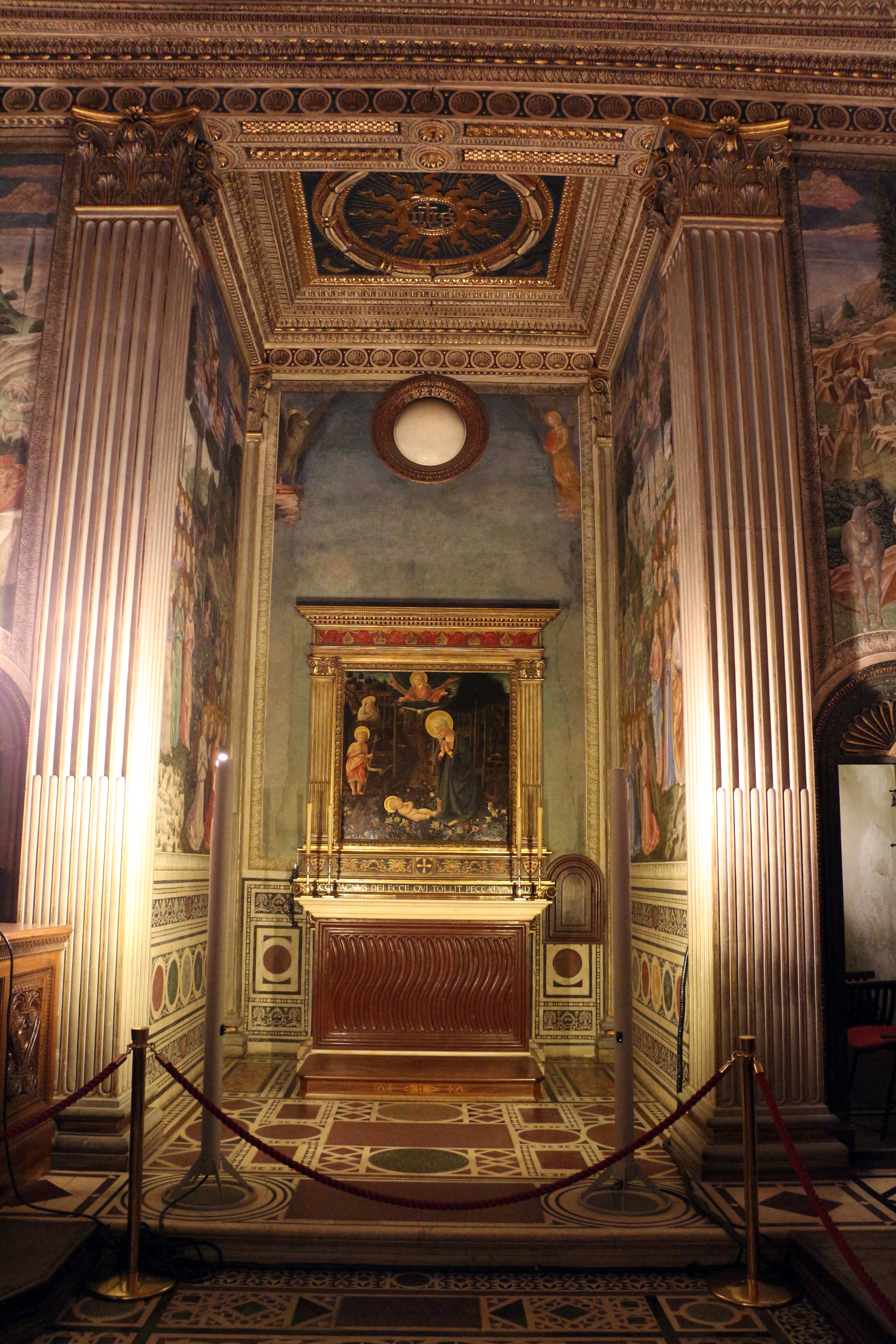 Palazzo Medici-Riccardi (Florence) - Cappella dei Magi